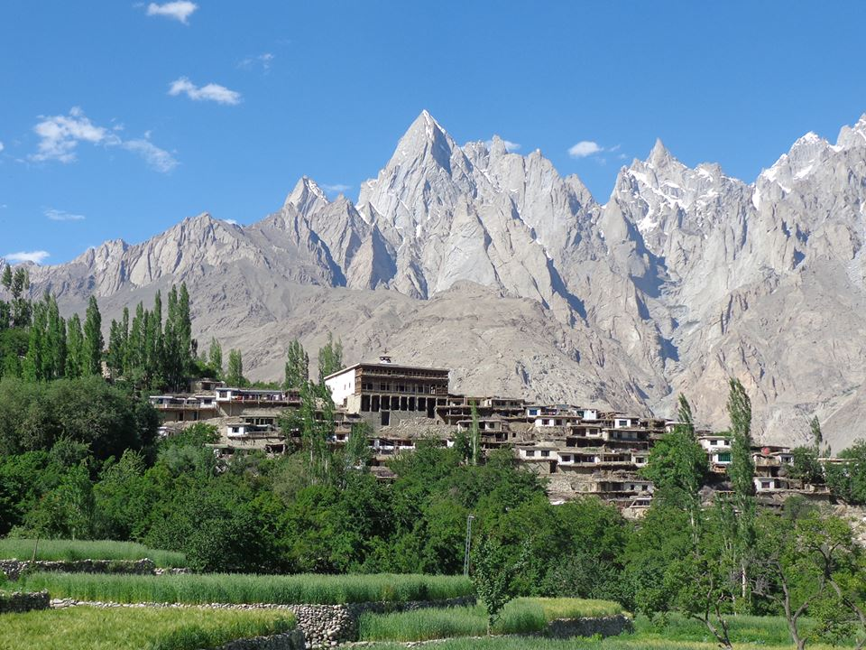 machulu valley of ghanche district baltistan